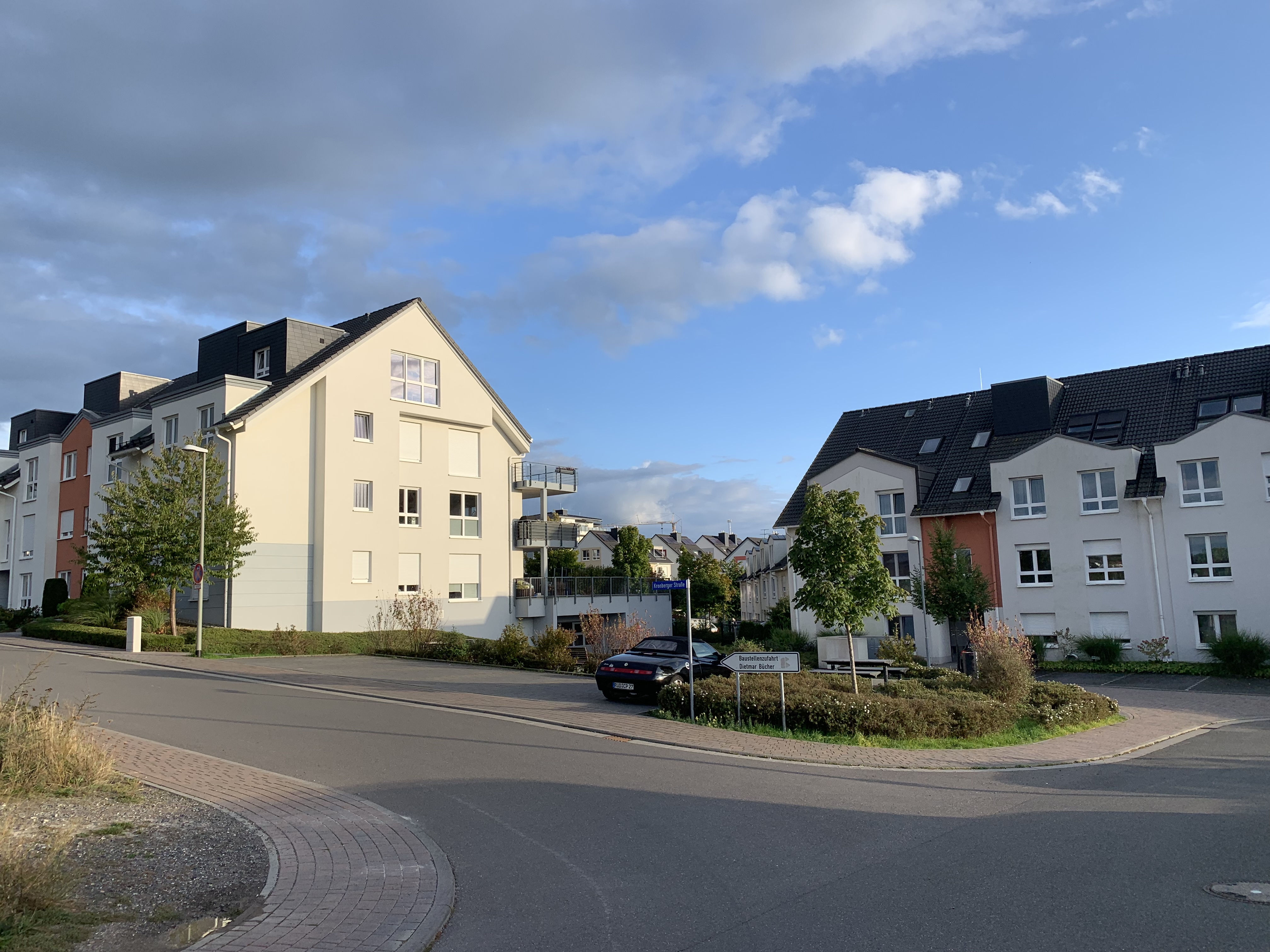 The Taunusviertel in Idstein built by Dietmar Bücher